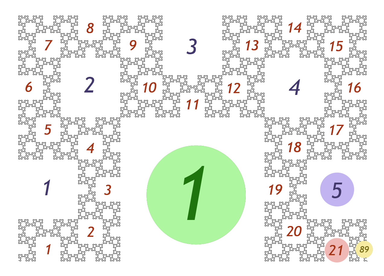 Fibonacci numbers inside the Fibonacci word fractal. Counting the "gaps", at any scale, within the pattern always give Fibonacci numbers. That is also the case for the 2 other types : F 3 k {\displaystyle F_{3k and F 3 k + 1 {\displaystyle F_{3k+1 . See also The "Fibonacci word gasket".